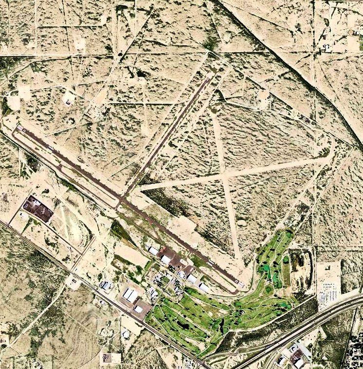 USGS digital orthophoto of Fort Stockton-Pecos County Airport in Texas